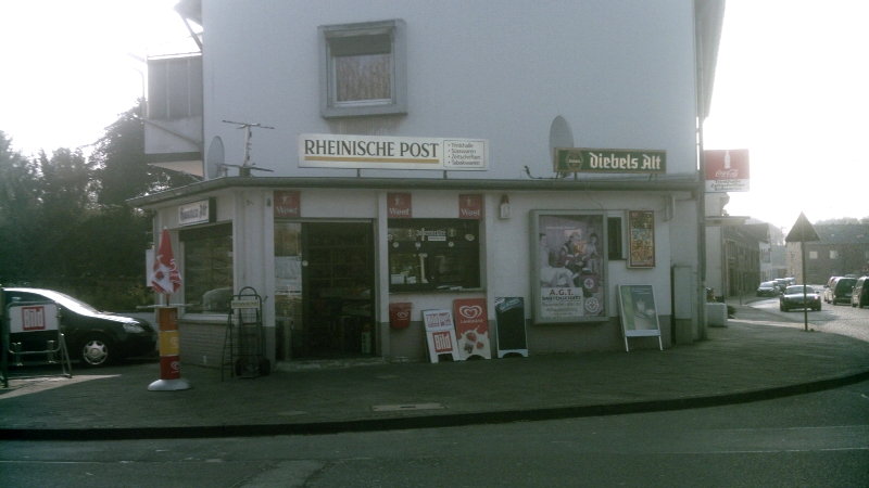 Kiosk in Ummer, Viersen, Germany